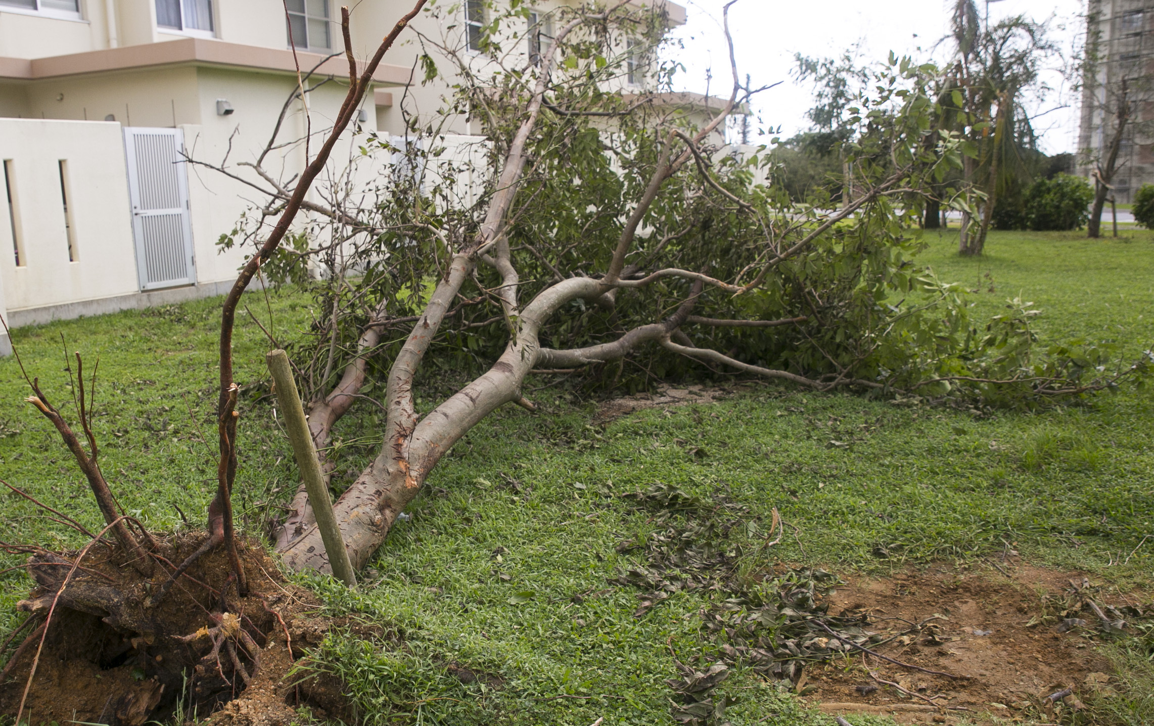 Typhoon Neoguri’s winds knocked down trees July 8-9 at Camp Foster, and caused minor damage across U.S. military installations on Okinawa. According to the Okinawa Prefectural Government, the typhoon injured more than 20 people, uprooted trees, caused flooding, and knocked out power for more than 100,000 people on the island. U.S. military installations on Okinawa were affected by scattered power outages, low-lying area flooding and debris. Infrastructure in Okinawa, both on and off base, is designed to survive the high winds of a typhoon. Prior the storm’s arrival, service members stock up on food, water and emergency supplies for use as necessary, and during the storm remain indoors to avoid risk of injury from high winds. Base officials also pre-stage emergency response teams with heavy equipment and tactical vehicles in order to be able to respond quickly should the need arise. The typhoon cleared Okinawa June 9 on a course toward mainland Japan. (U.S. Marine Corps photo by Lance Cpl. Isaac Ibarra/ Released)